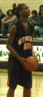 Former City College guard CJ Fair preps for free throw in a game at City College in Jan 2008.